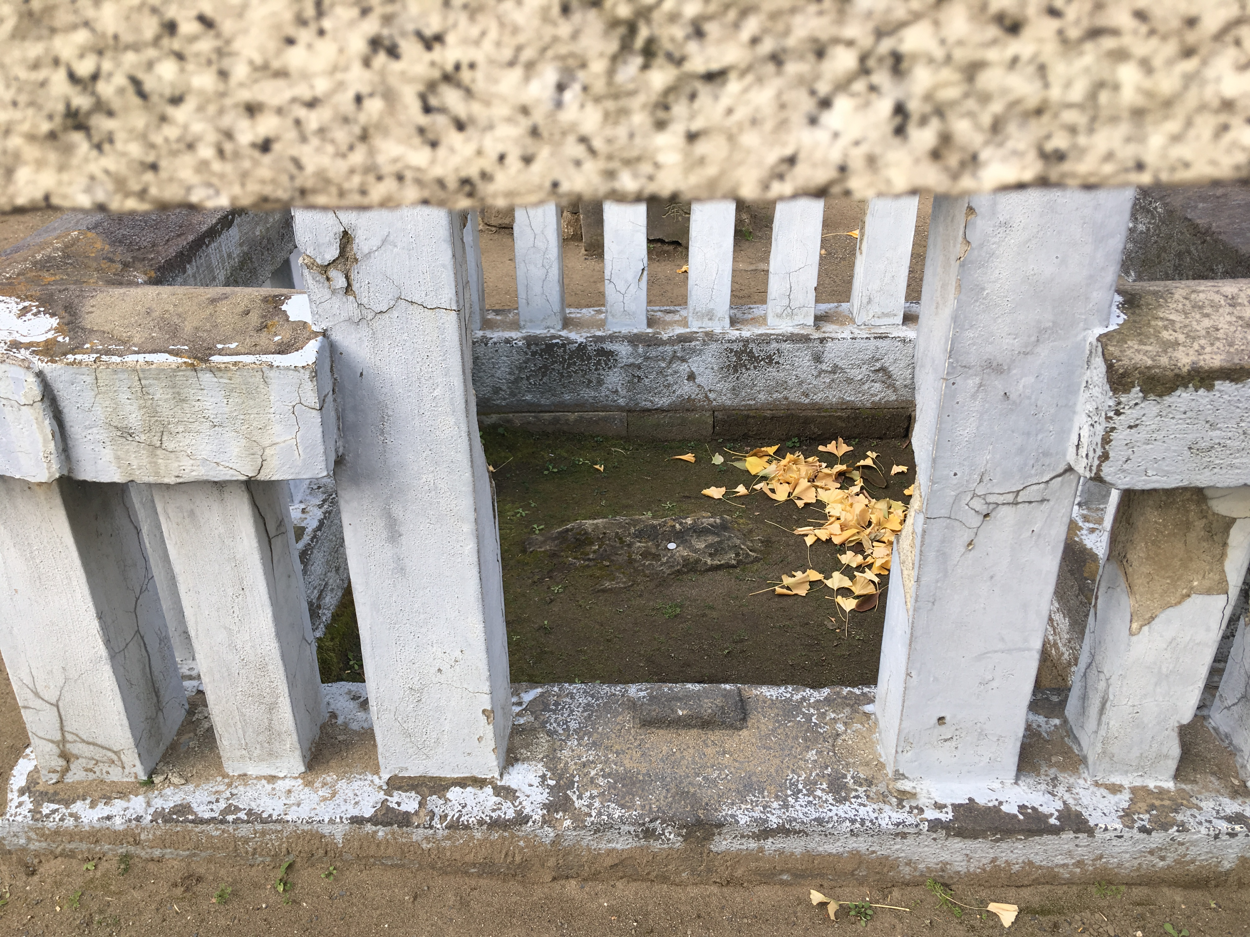 Tateishi-sama in Katsushika Ward, Tokyo, Japan